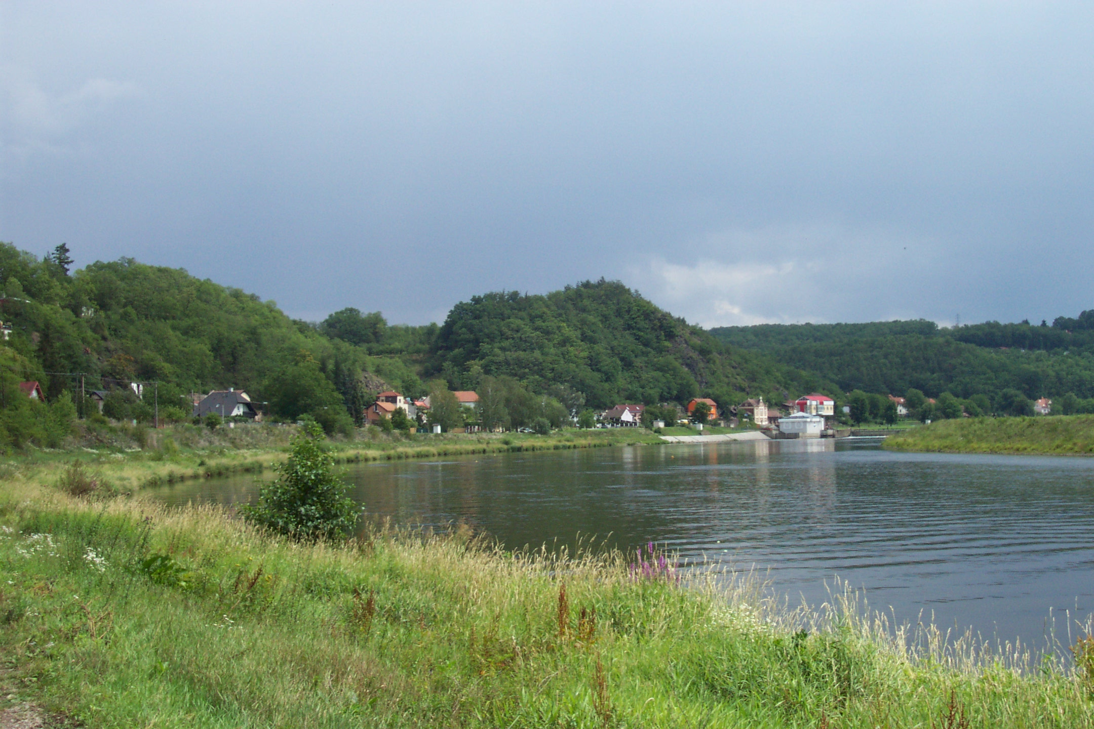 A wiev on Klecánky